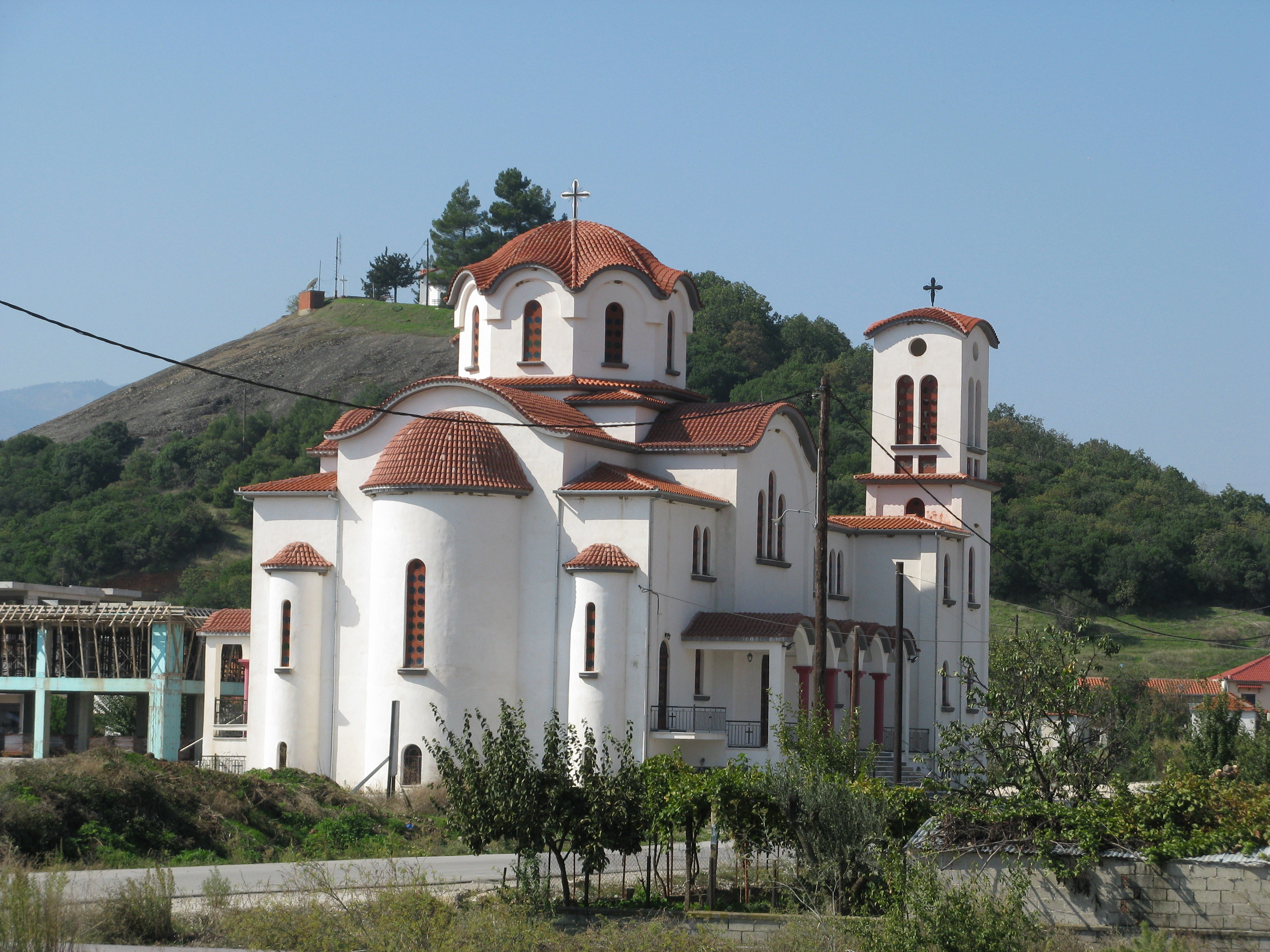 Church of St. John the Baptist in kalambaka.